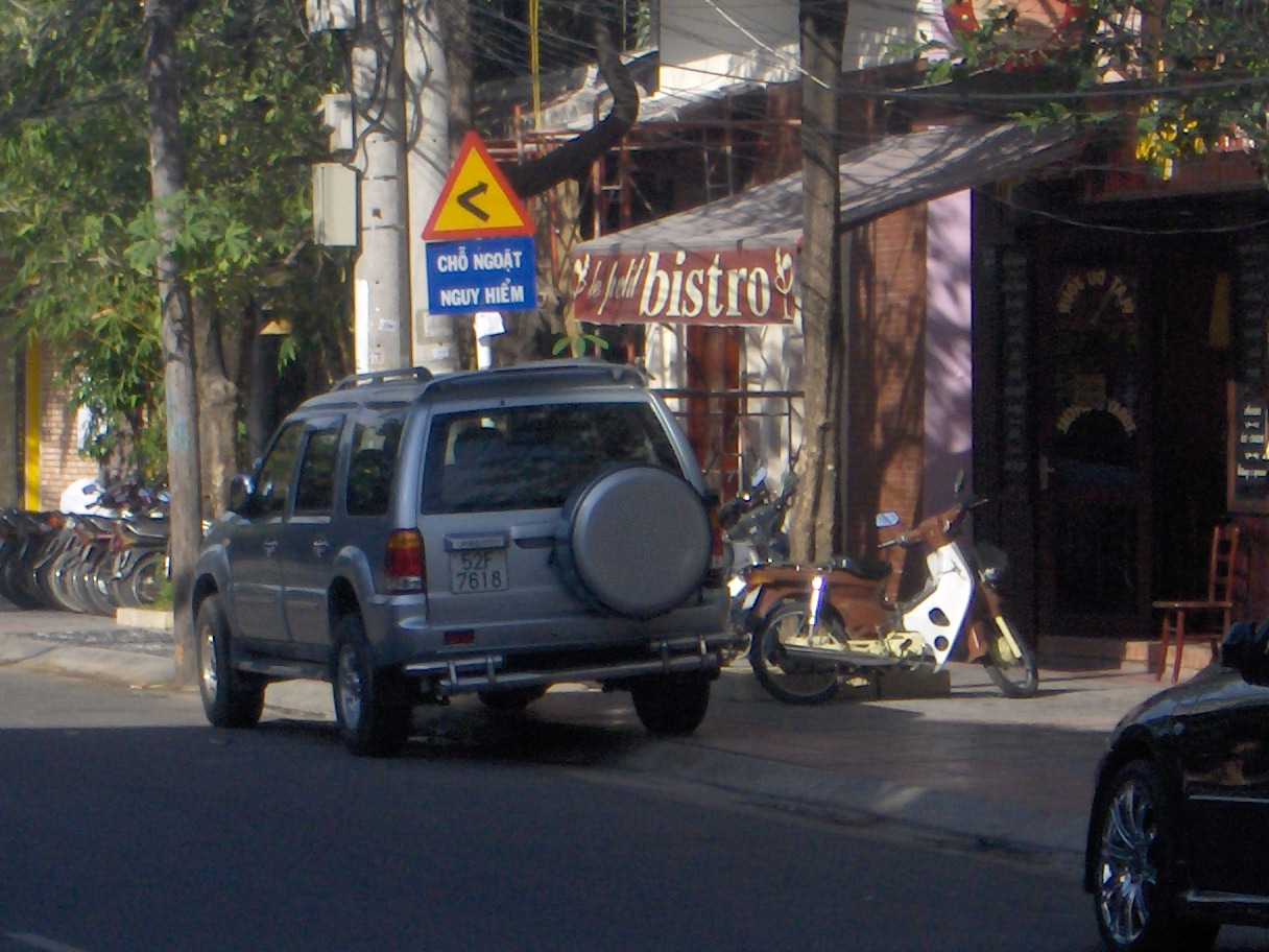 Rear view of a PMC Pronto in Nha Trang, Vietnam.